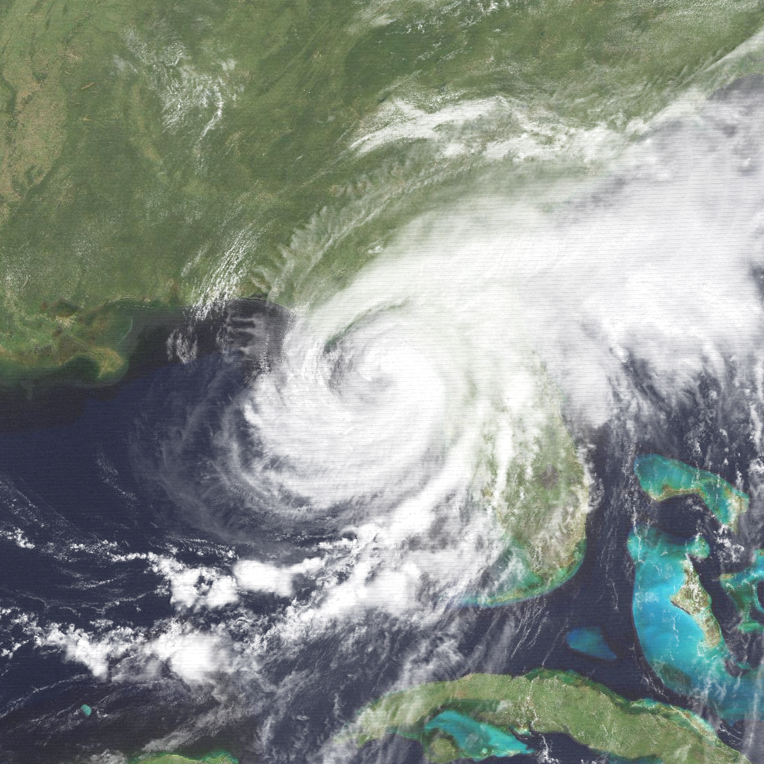 Category 2 Hurricane Elena drifting erratically in the Gulf of Mexico on August 31, 1985